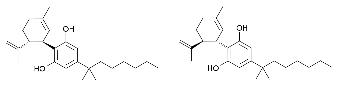 Structures of (-) and (+) CBD-1,1-DMH